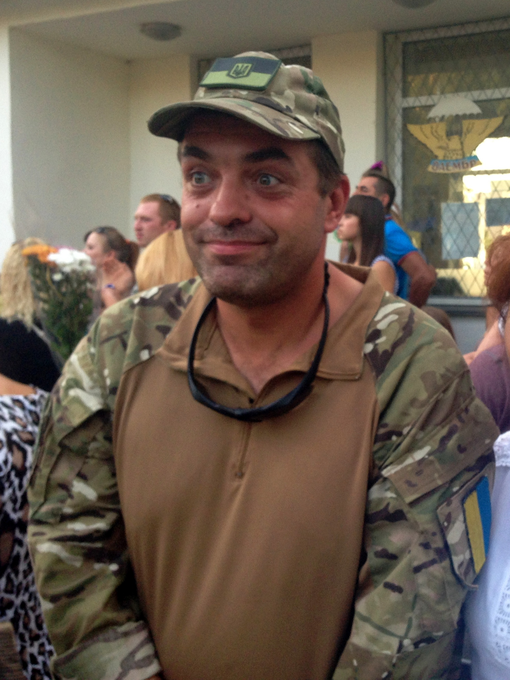 Yuri Biryukov at HQ 79 AMB